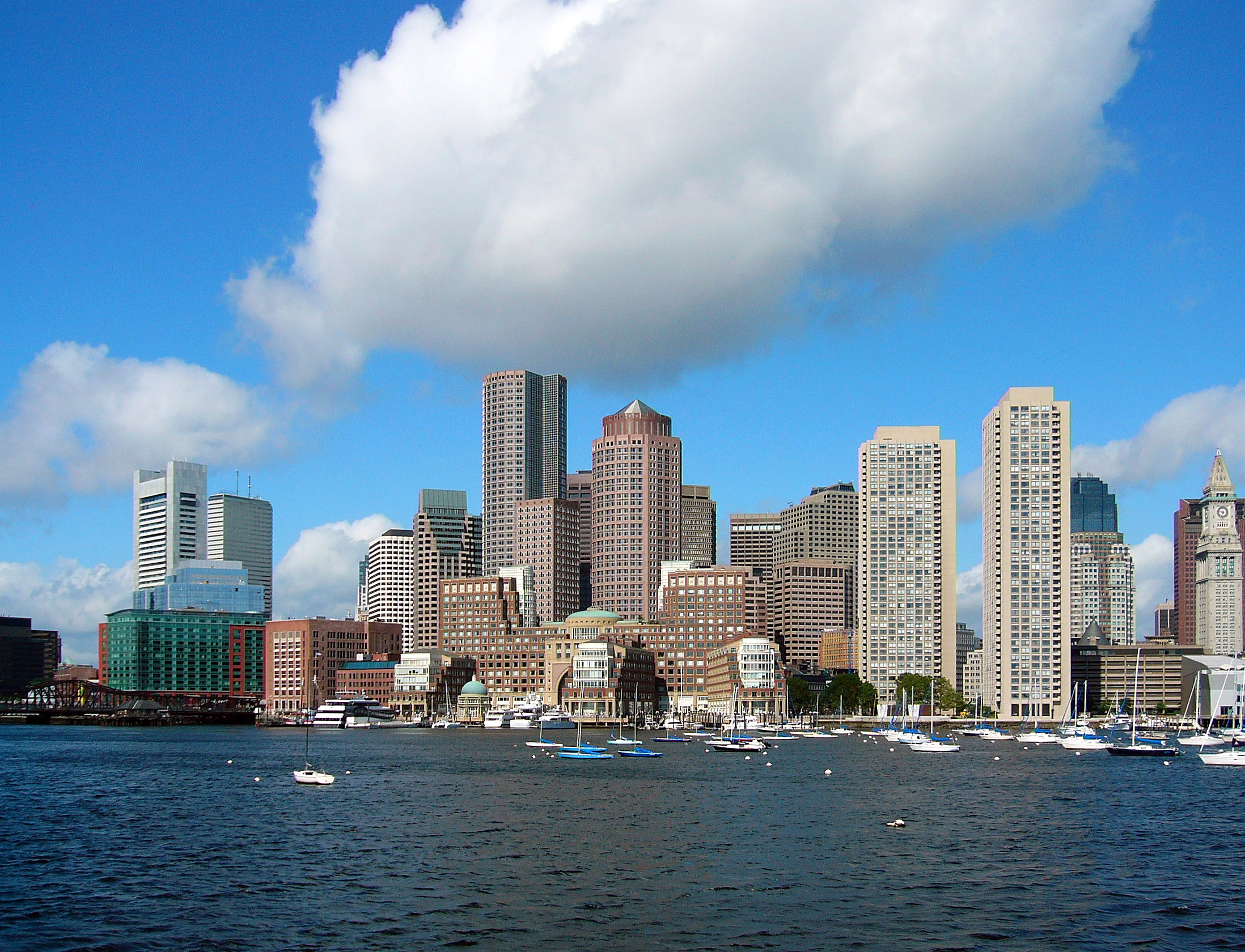 Skyline of Boston. Picture was taken from a whale watching ferry that left from the aquarium dock. It is the Eastern side of the Boston peninsula.